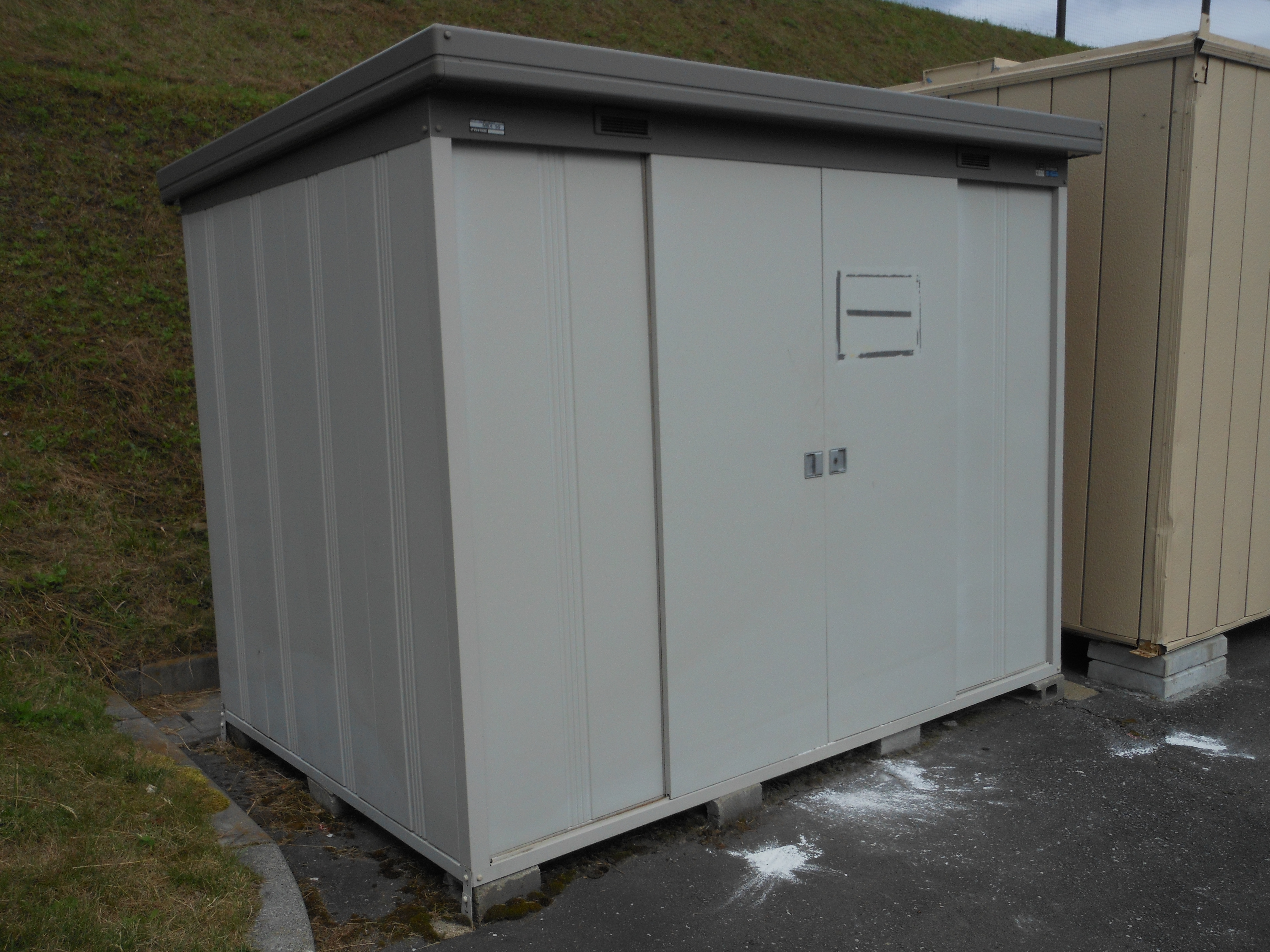 This is the Inaba Lumber Room MBX-50, an outdoor storage.